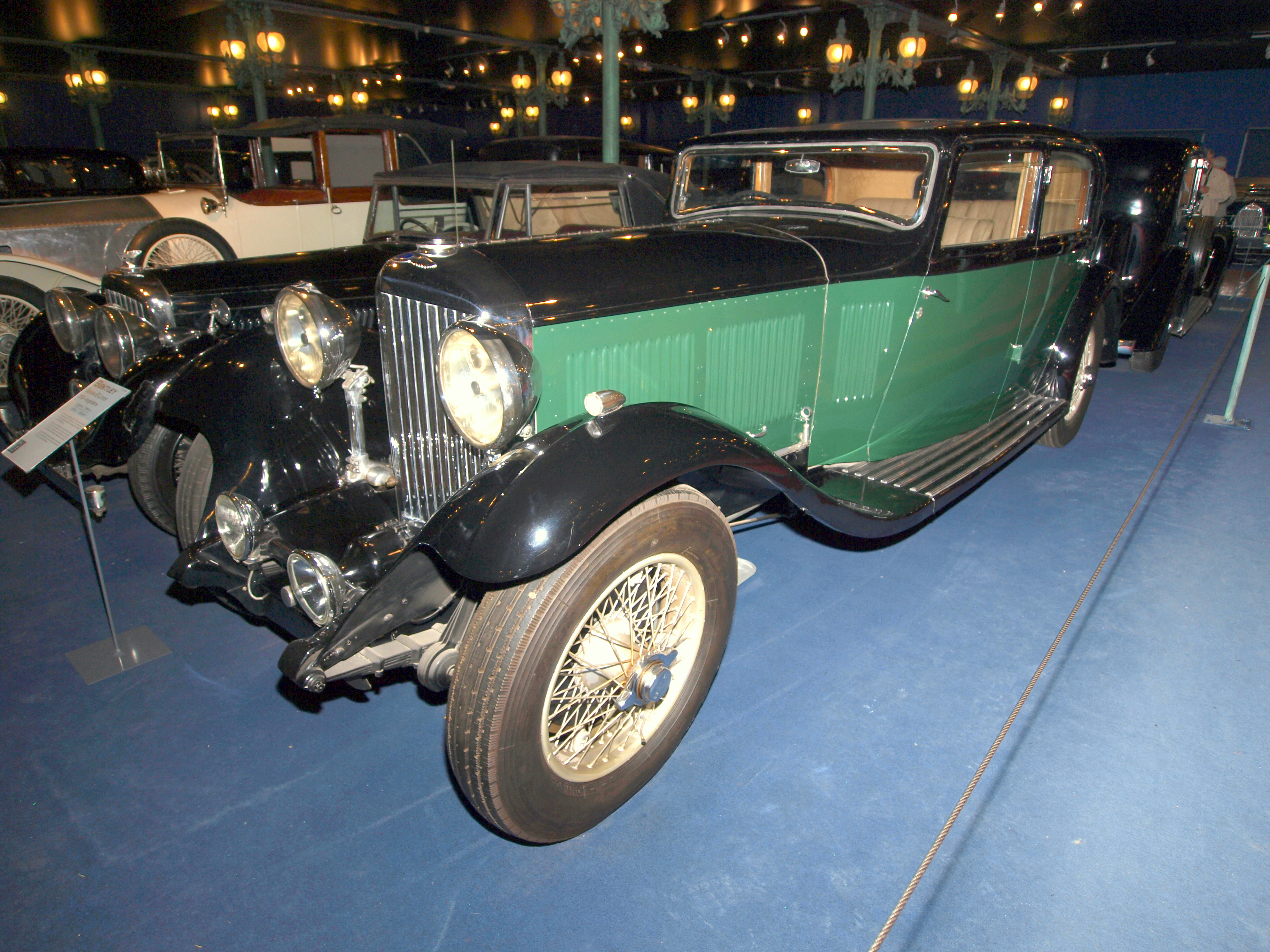 Photographed at the Cité de l’Automobile, France. OLYMPUS DIGITAL CAMERA